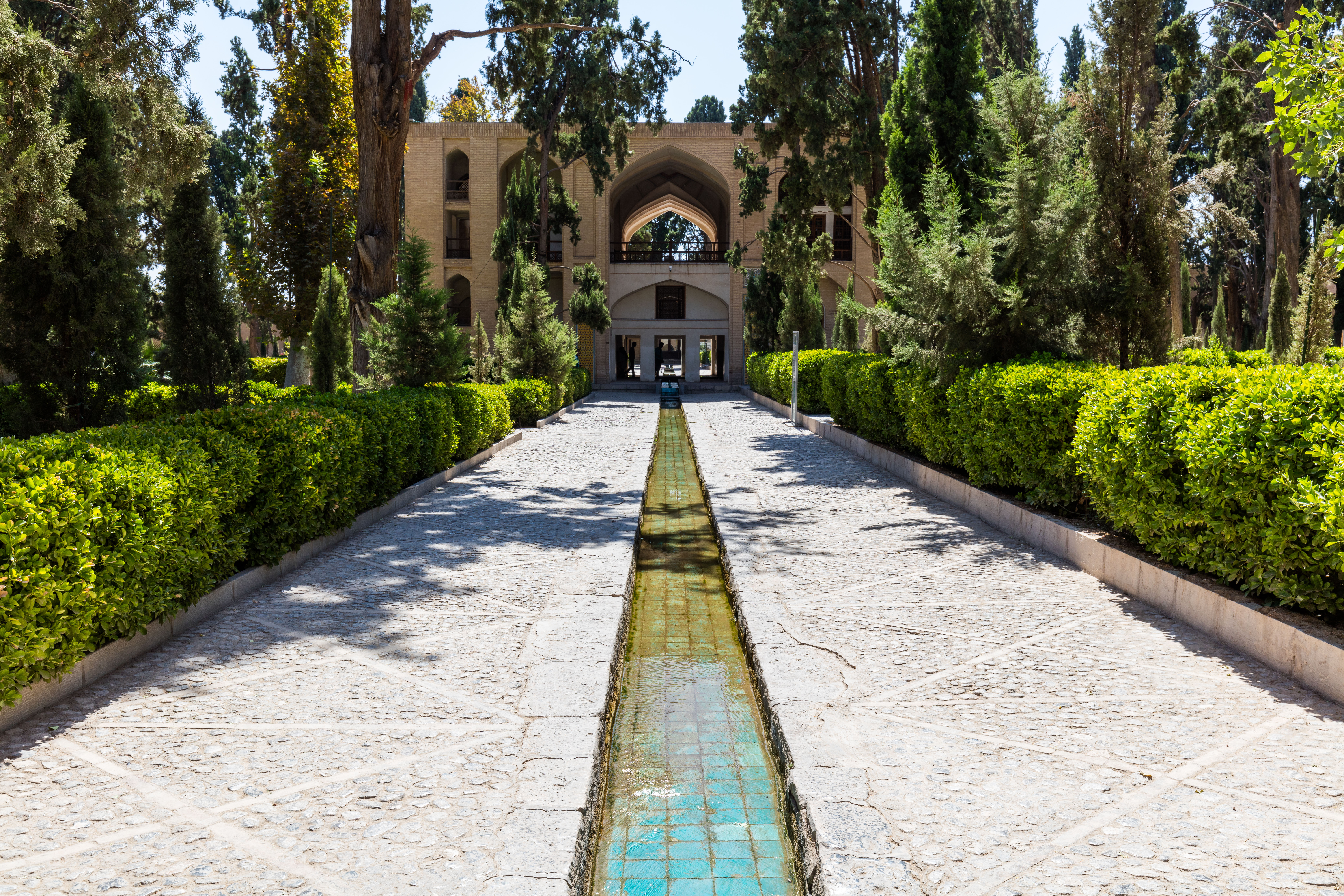 Fin Garden, Kashan, Iran